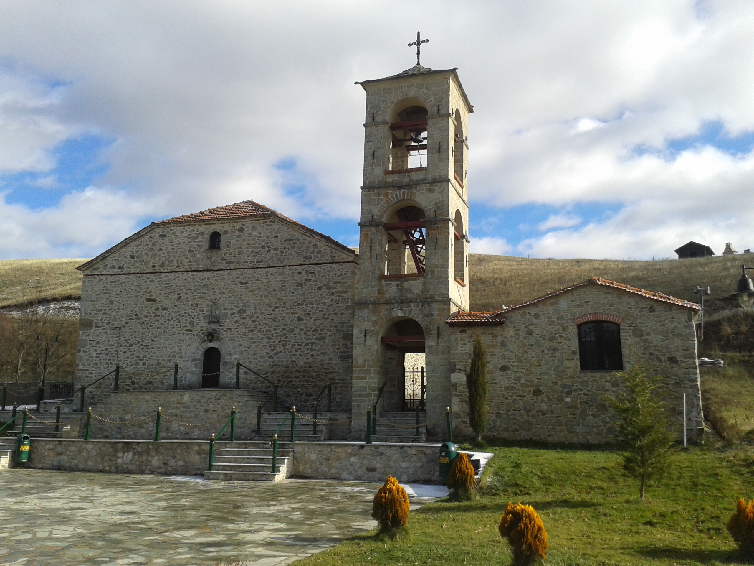 Church in Polykeraso.